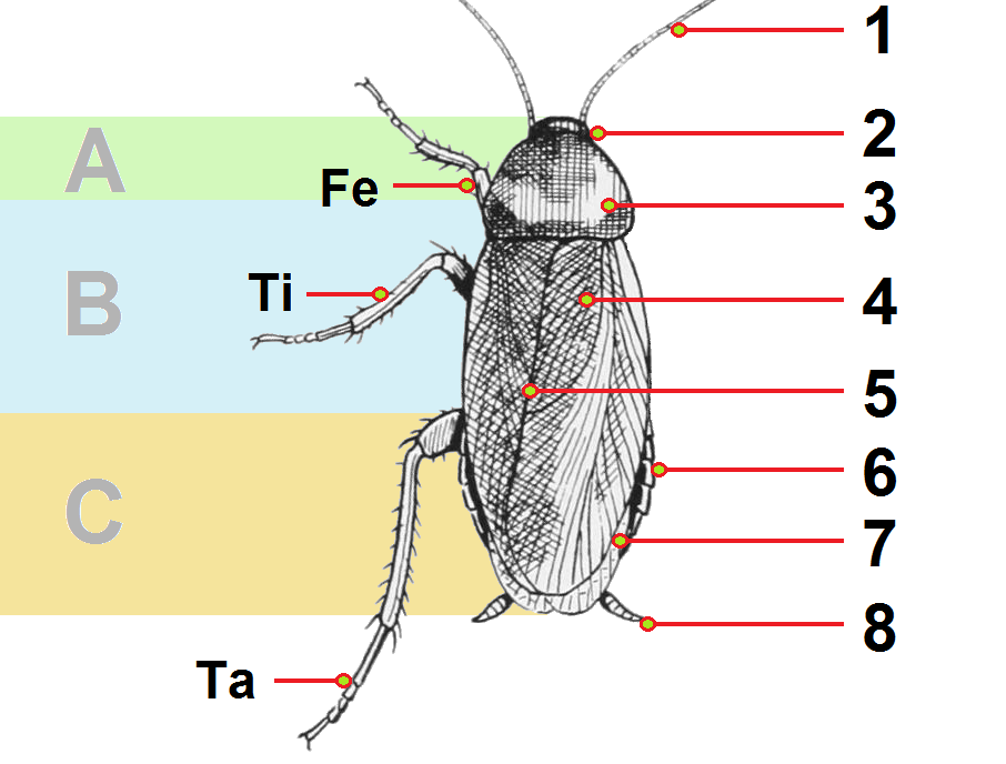 The American cockroach, Periplaneta americana A head, B thorax, C abdomen. Length 1 3/8 inches.